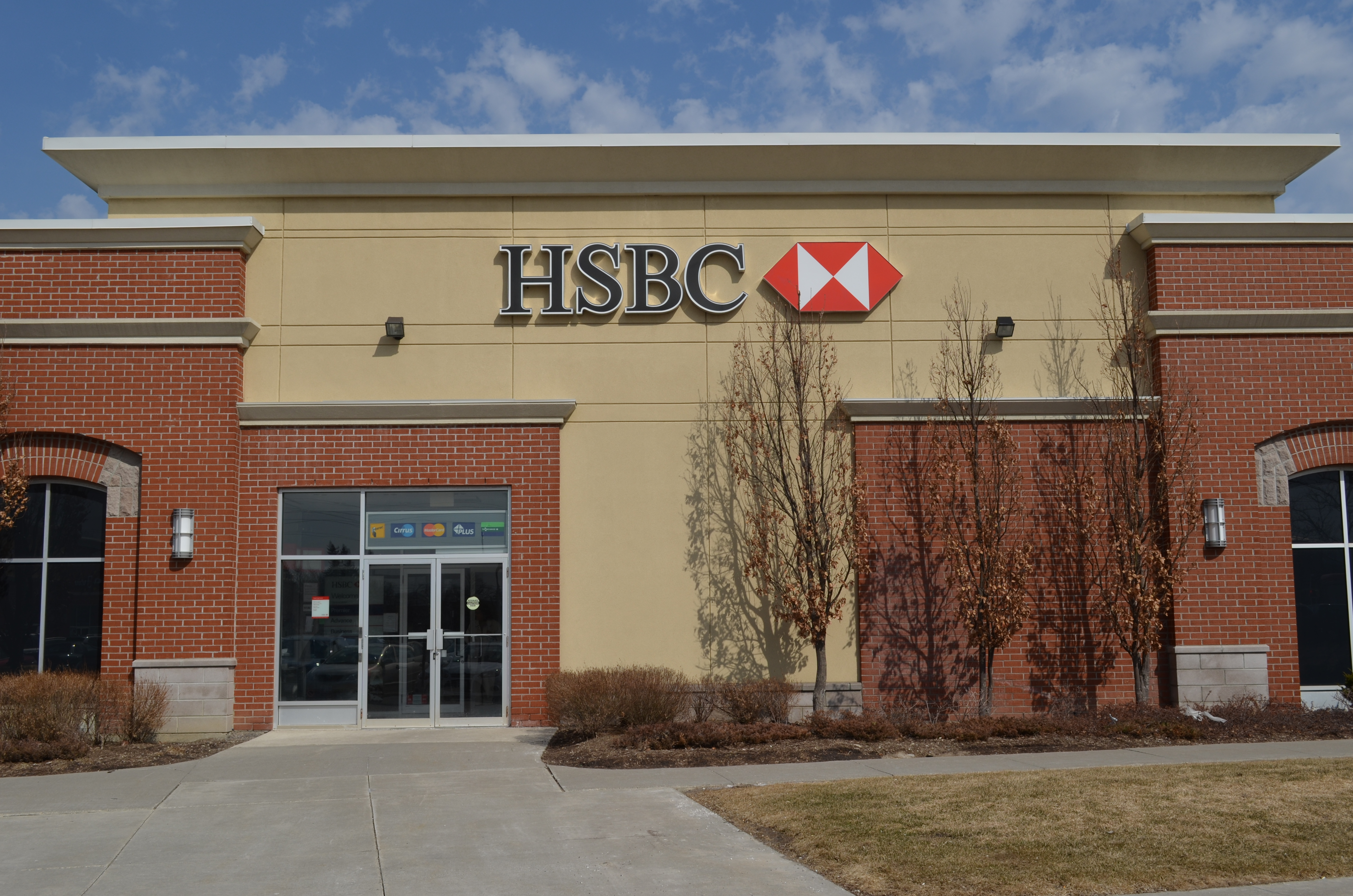 HSBC Canada 1070 Major Mackenzie Drive East, Bayview & Major Mackenzie, Richmond Hill, Ontario